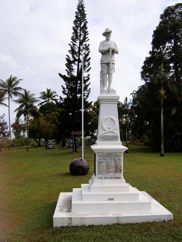 ANZAC war memorial, Port Douglas, Queensland, Australia. Originally a World War I and ANZAC memorial, it also has a World War II plaque.